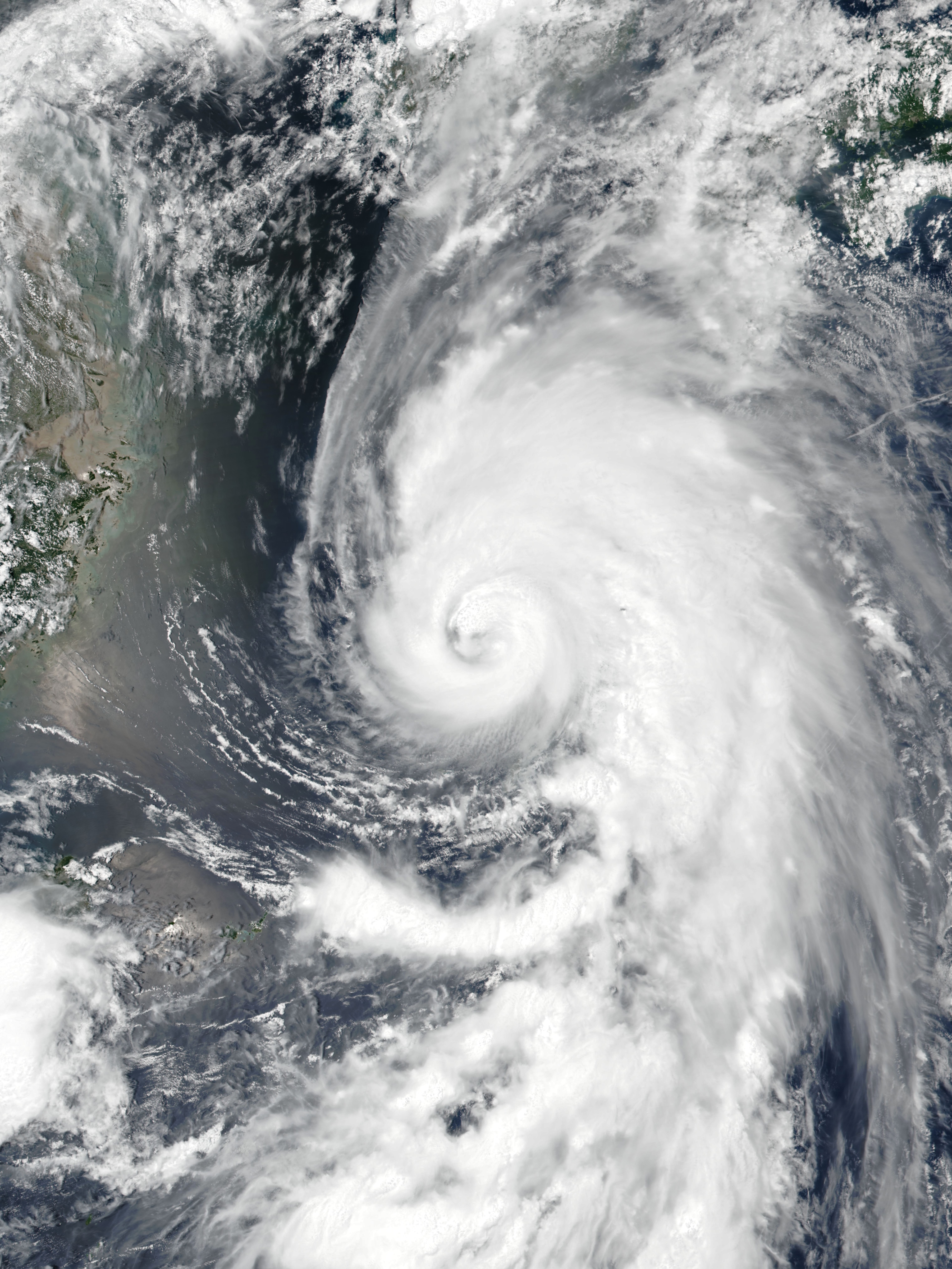 Typhoon Prapiroon at peak intensity over the Ryukyu Islands on July 2, 2018.